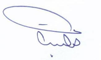 This is a Signature of Javad Etaat to be used in his Wikipedia